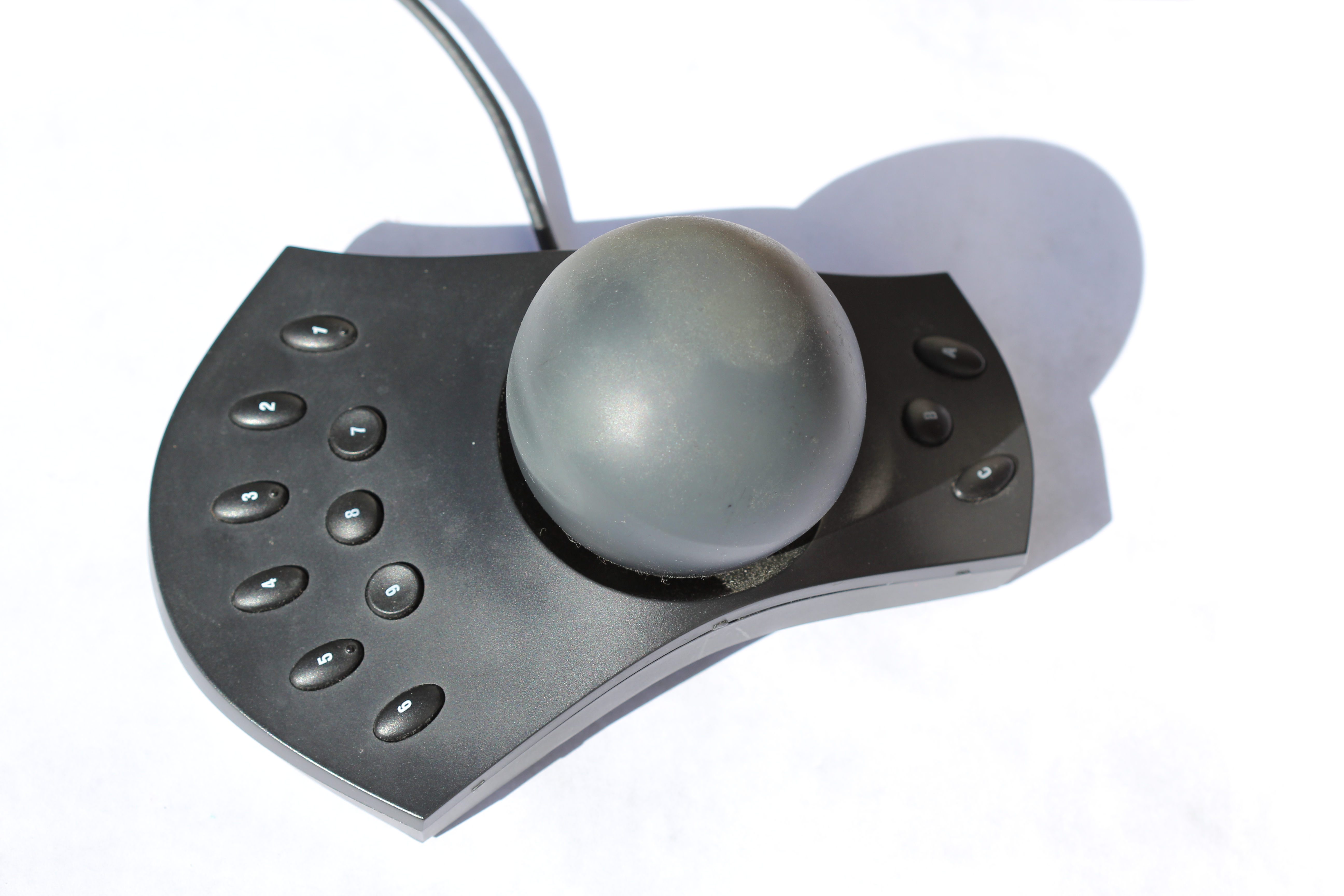 Logitec Spaceball 4000 FLX